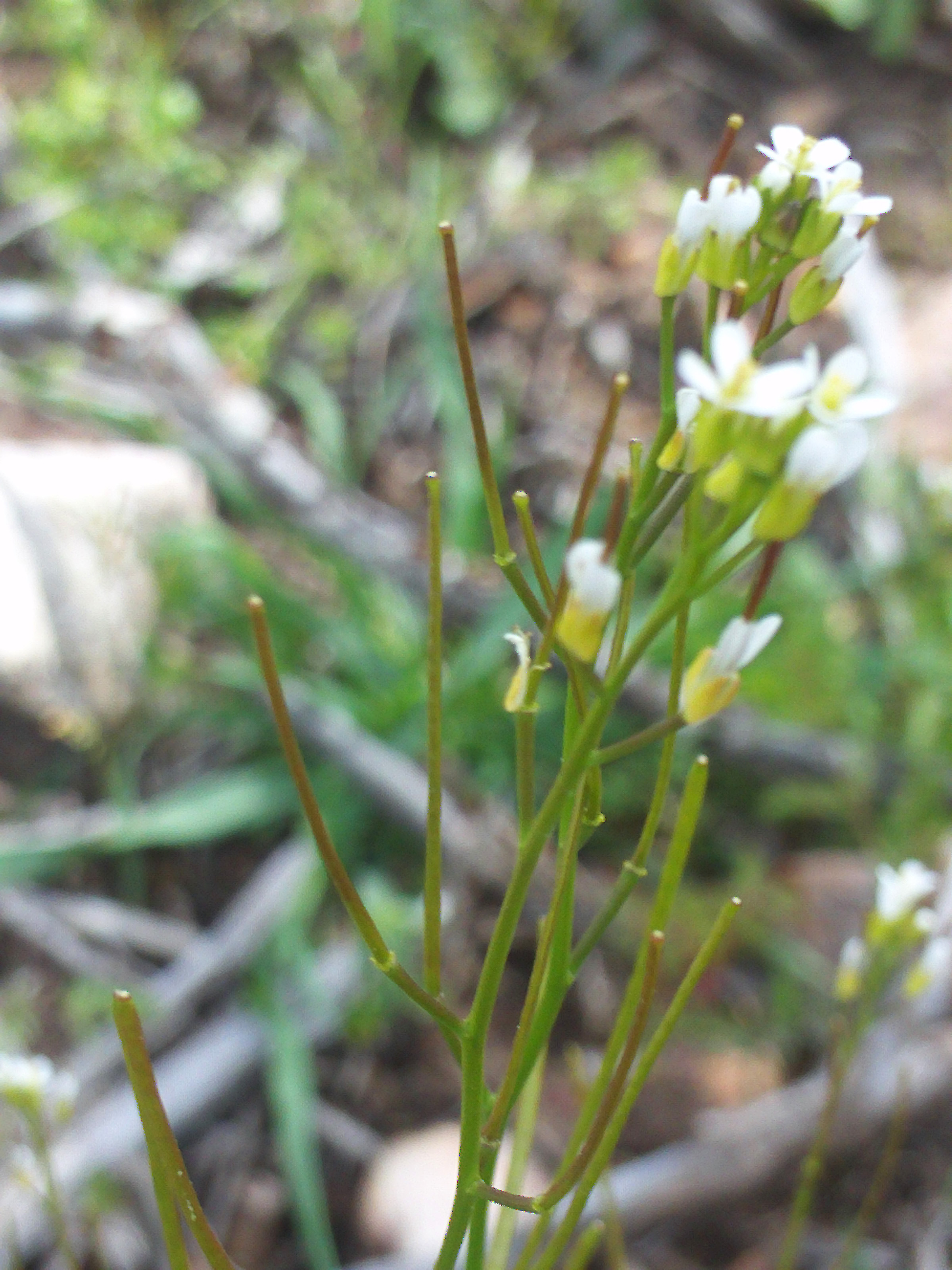 Arabis nova subsp. iberica flowers close up, Dehesa Boyal de Puertollano, Spain